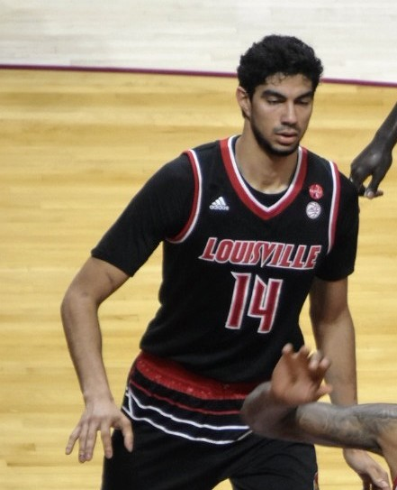 Malik Williams set a blind side pick on Nickel Alexander-Walker